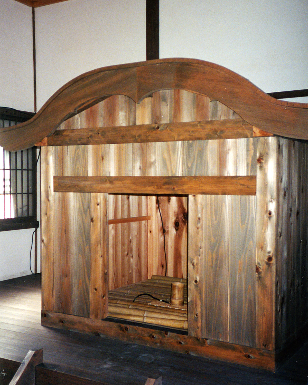 Bathroom (akin to a sauna) at Eikando, a Buddhist temple in Kyoto, Japan. I took this photo and contribute my rights in the file to the public domain; individuals and organizations retain rights to images in it.